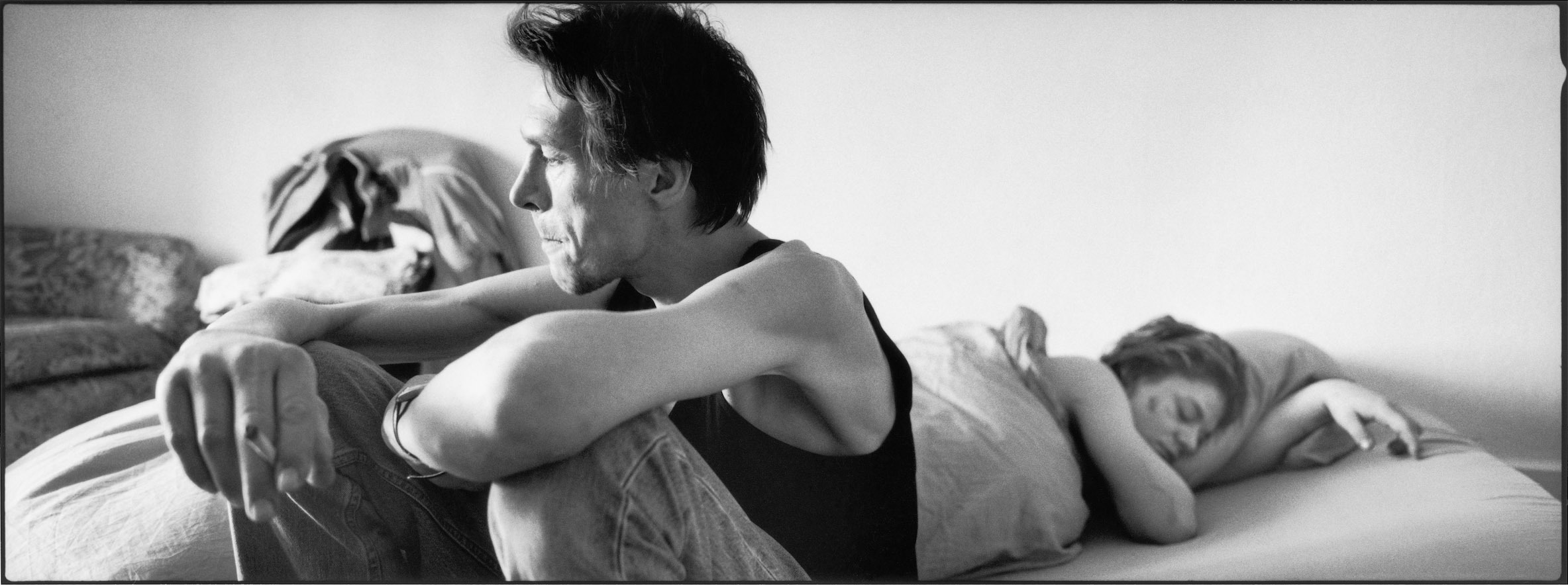 Cocainelove Astrid und Peter, Bern, 2004